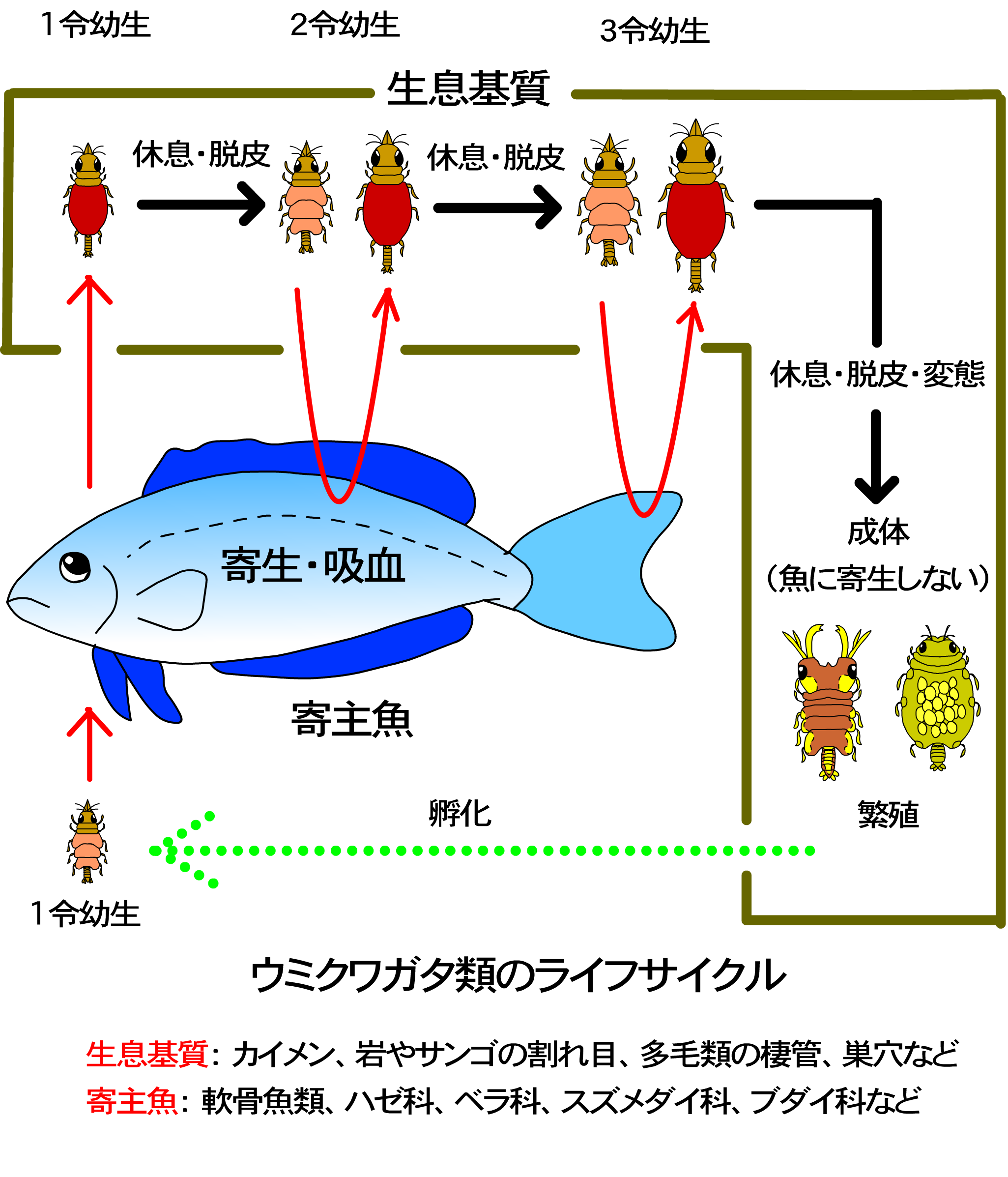 General life cycle of gnathiid isopod crustacean